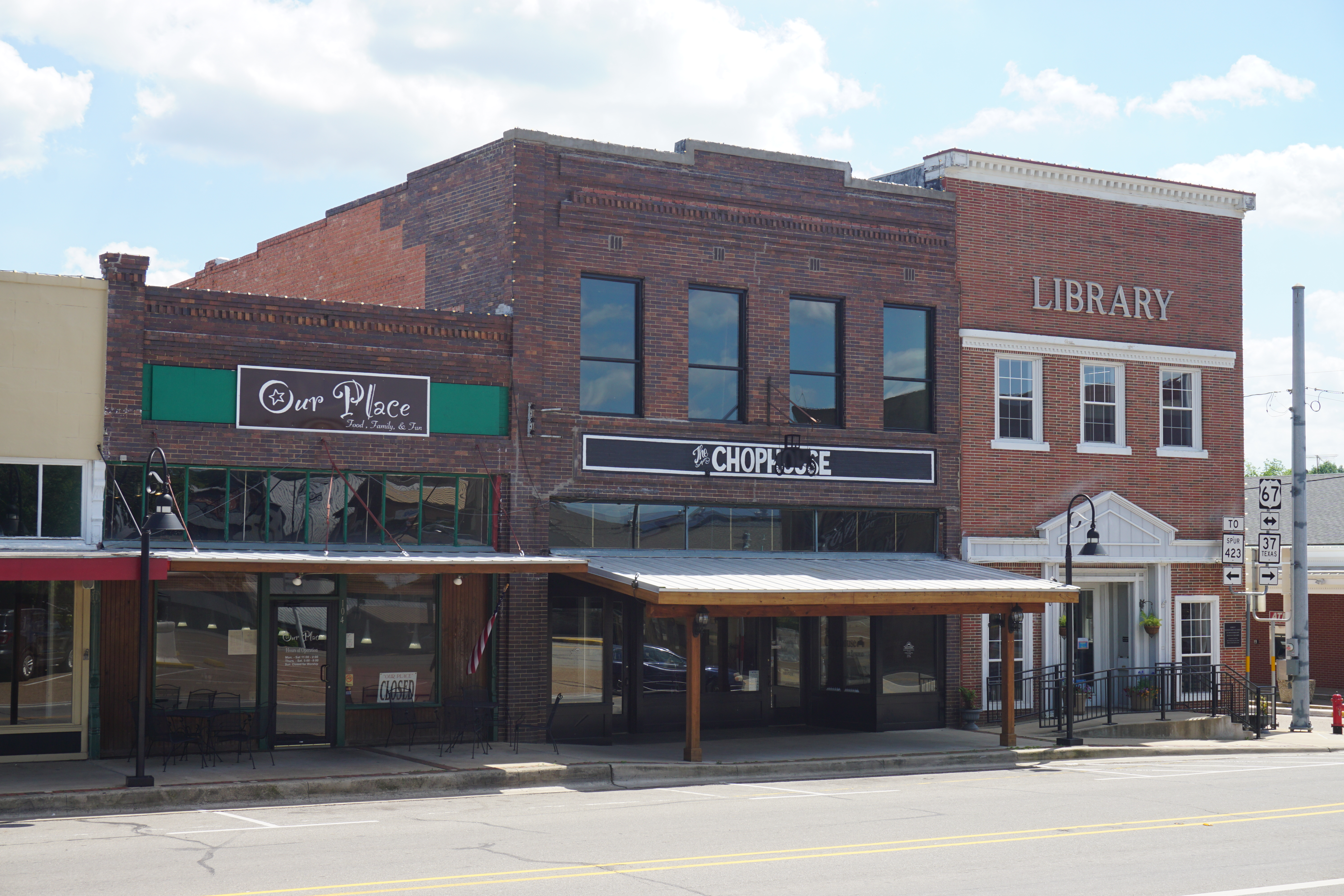 Our Place, The Chophouse on Bankhead, and the Franklin County Library in Mount Vernon, Texas (United States).